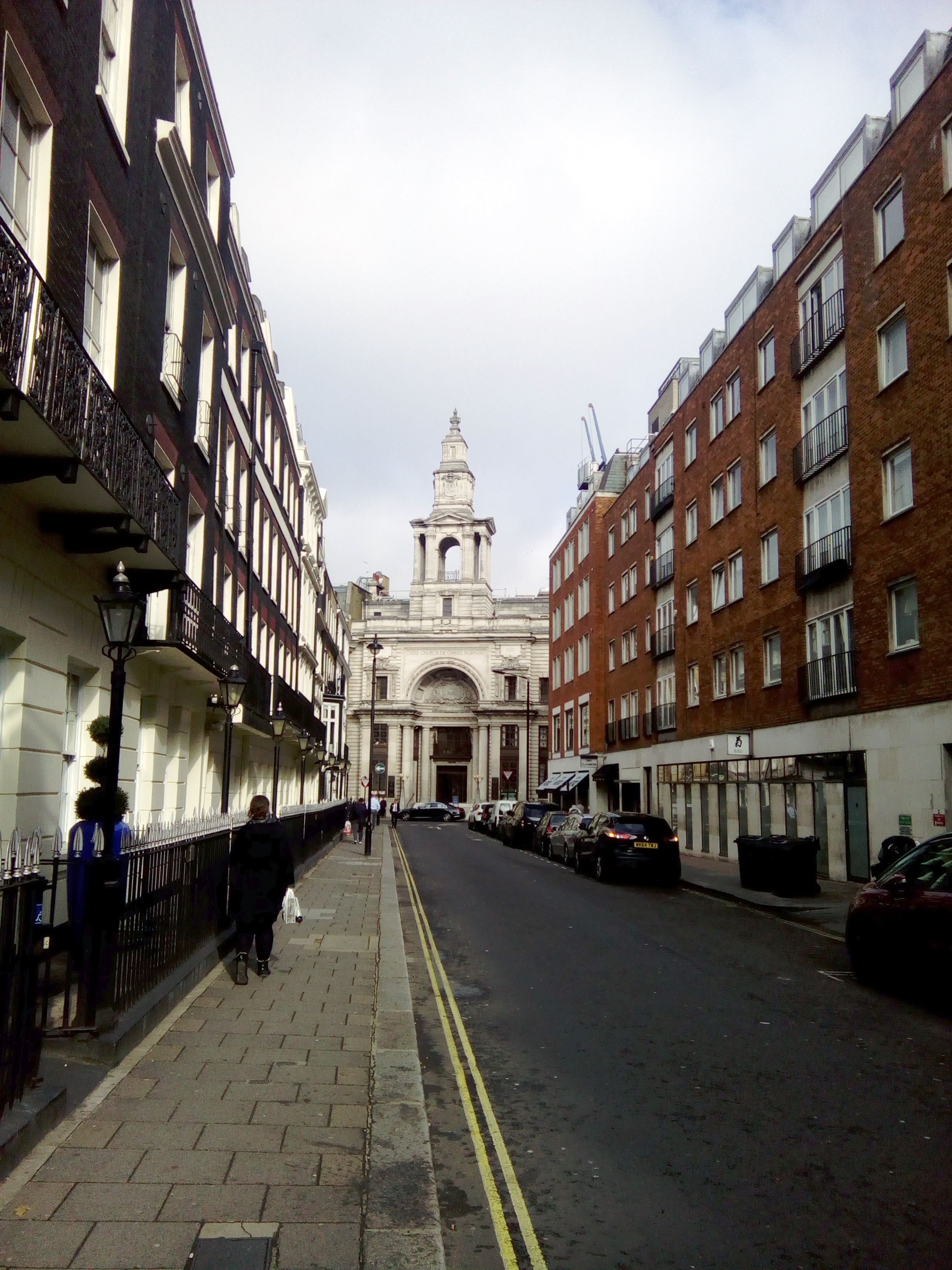 Third Church Of Christ Scientist, viewed along Half Moon Street. Wikidata has entry Q26319824 with data related to this item.